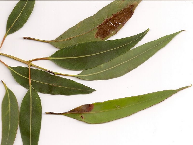 fallen Blackbutt & Angophora costata leaves, Chatswood West